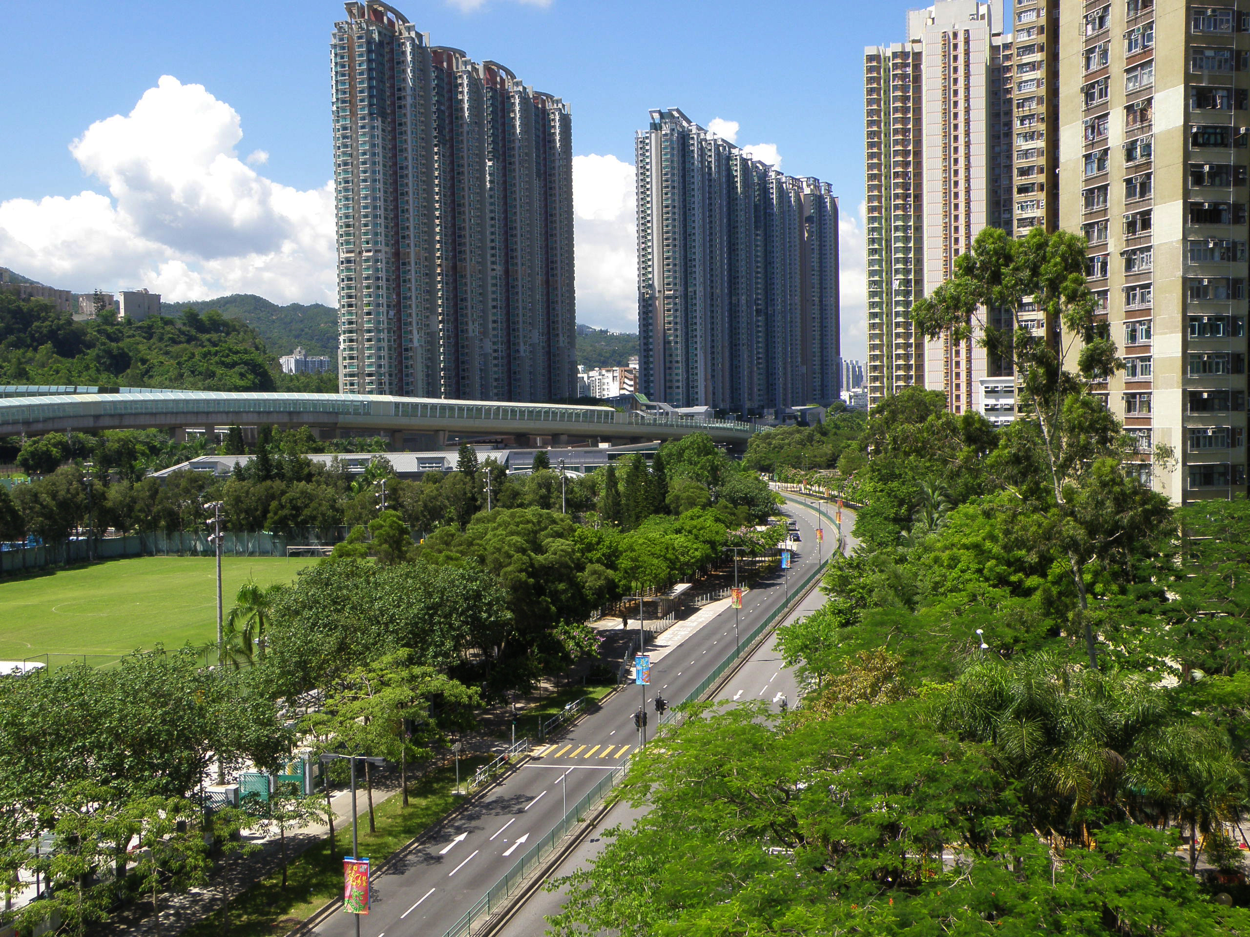 Che Kung Miu Road in Hin Keng, Hong Kong.